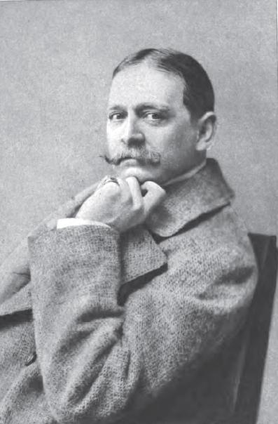 William Malcolm Bunn(1842 – 1923), American newspaperman, socialite, and Governor of Idaho Territory(1884 – 1885).